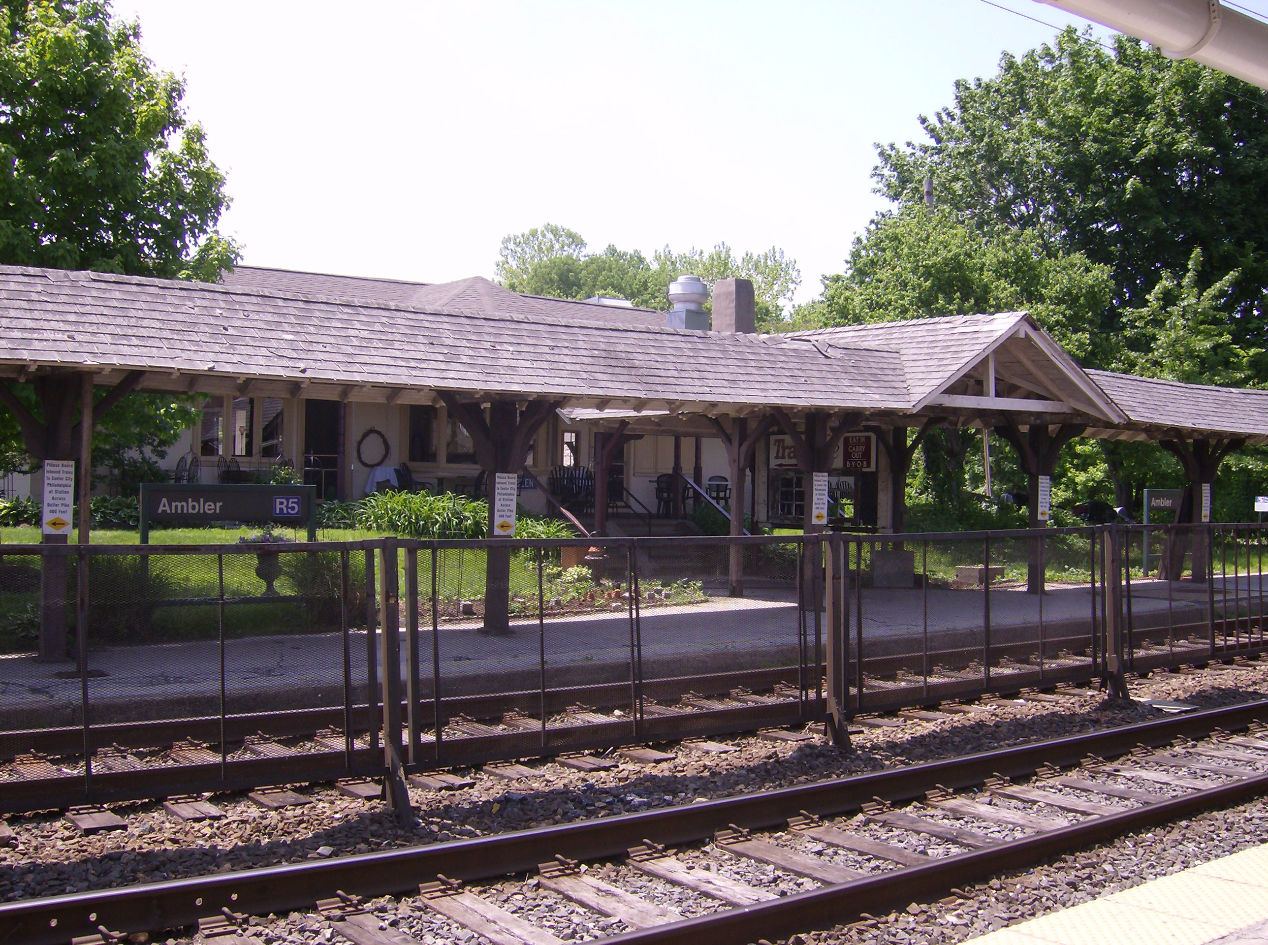 Platforms of the Ambler in Ambler. Note the sign for former SEPTA R5, as well as The Trax Cafe, which operates from the former station house.